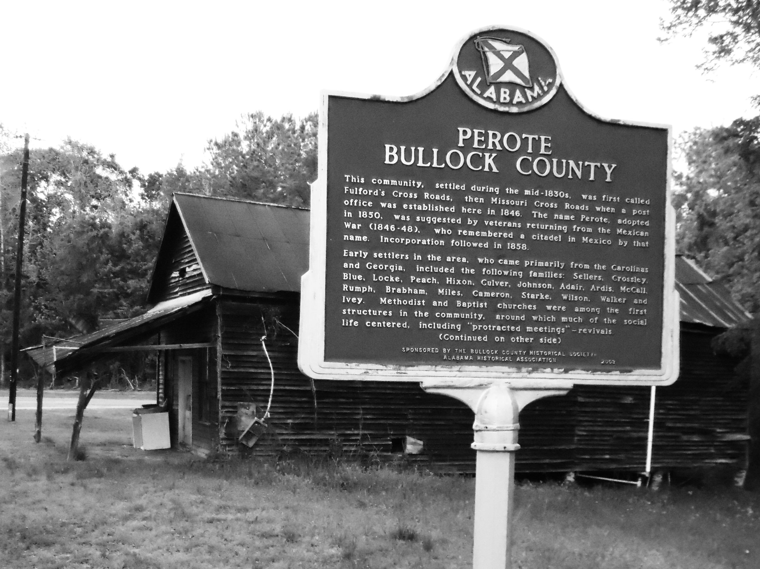 This is a photograph of the historical landmark that stands in the former location of Perote, Alabama.